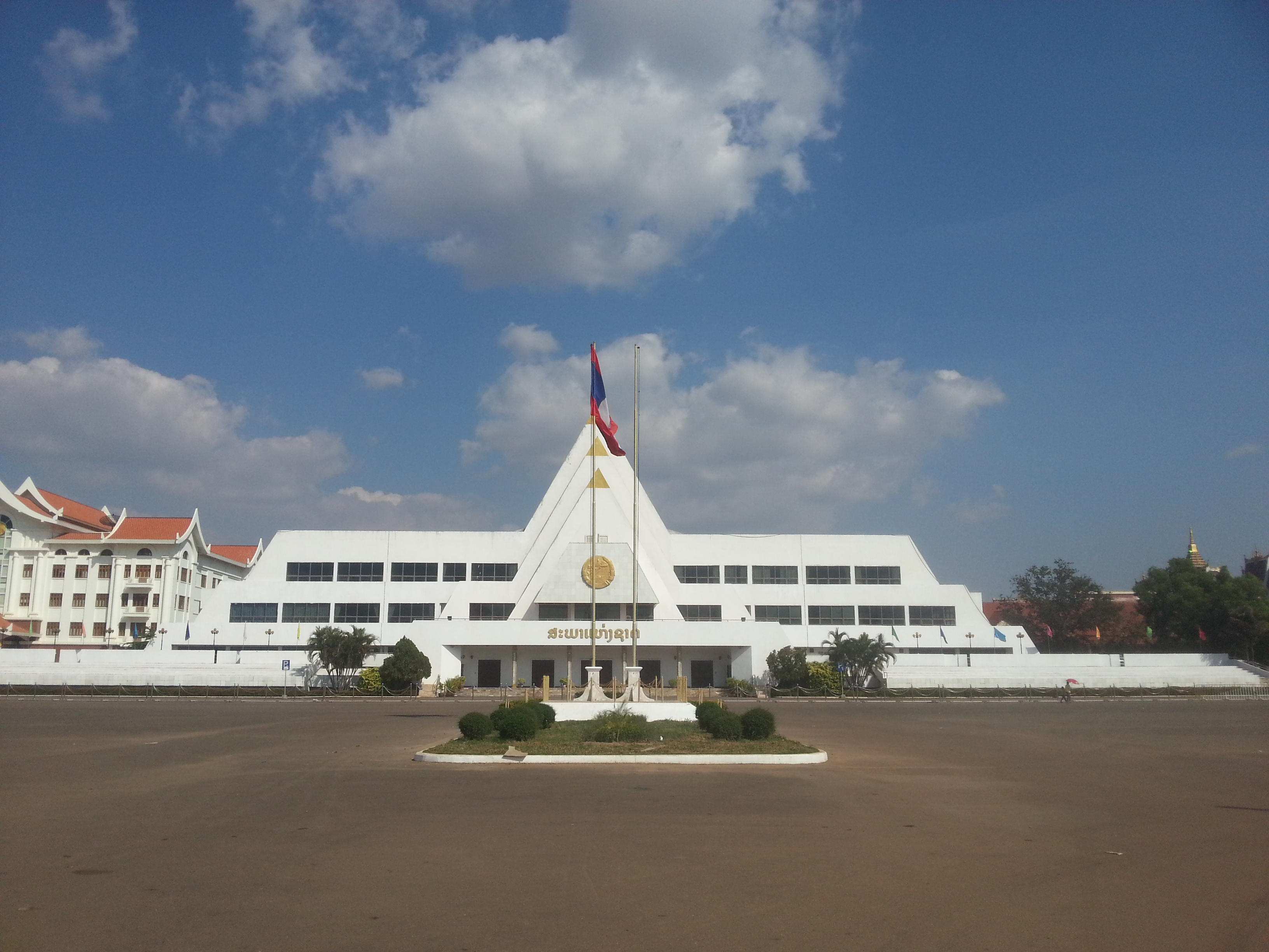 National Assembly in Vientiane, Laos